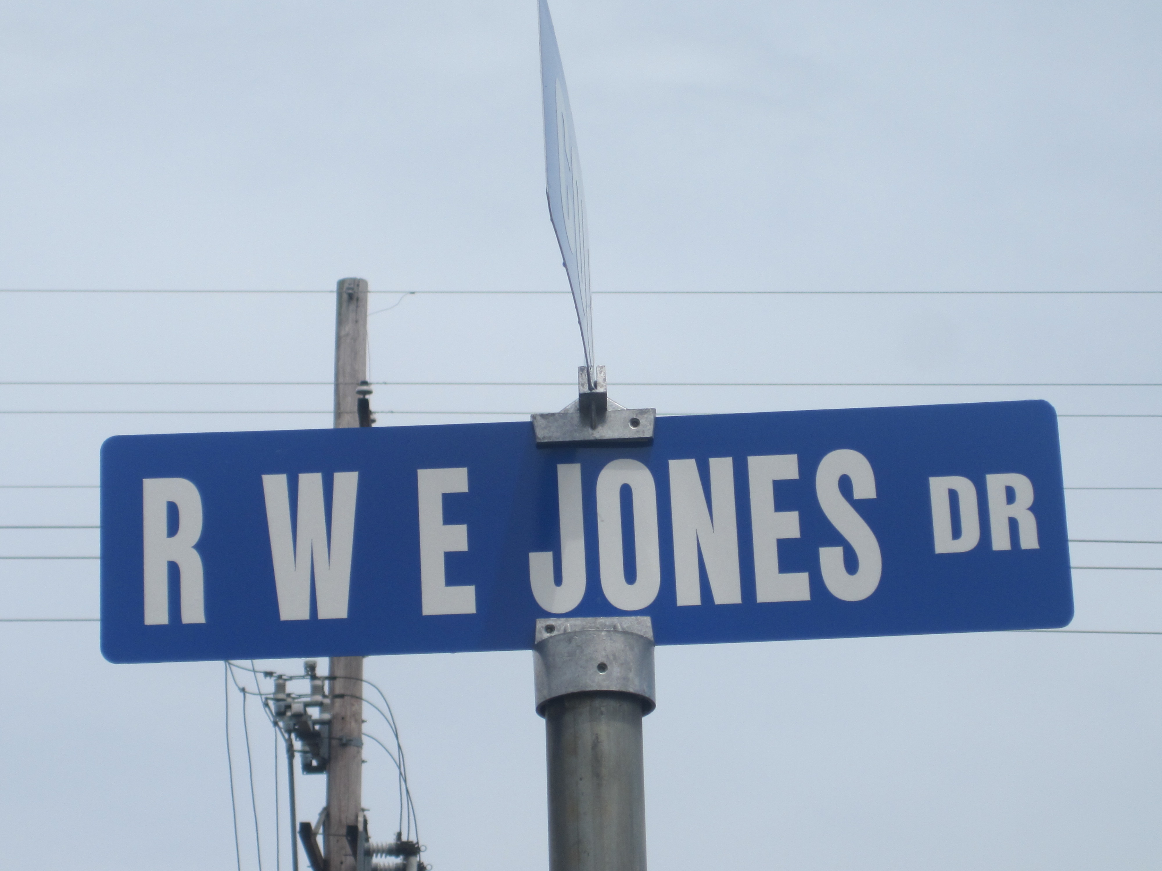 I took photo with Canon camera.